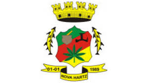 Flags of the city of Nova Hartz, Rio Grande do Sul, Brazil.